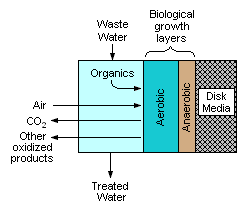 This is a schematic cross-section of the contact face of the media used in a rotating biological filter (RBC).